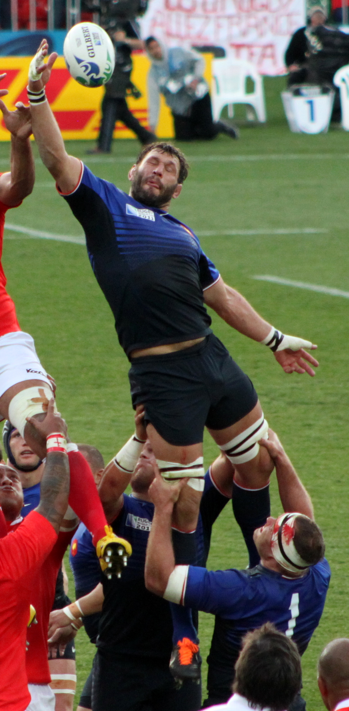 French rugby union player Lionel Nallet during 2011 Rugby World Cup match against Tonga.